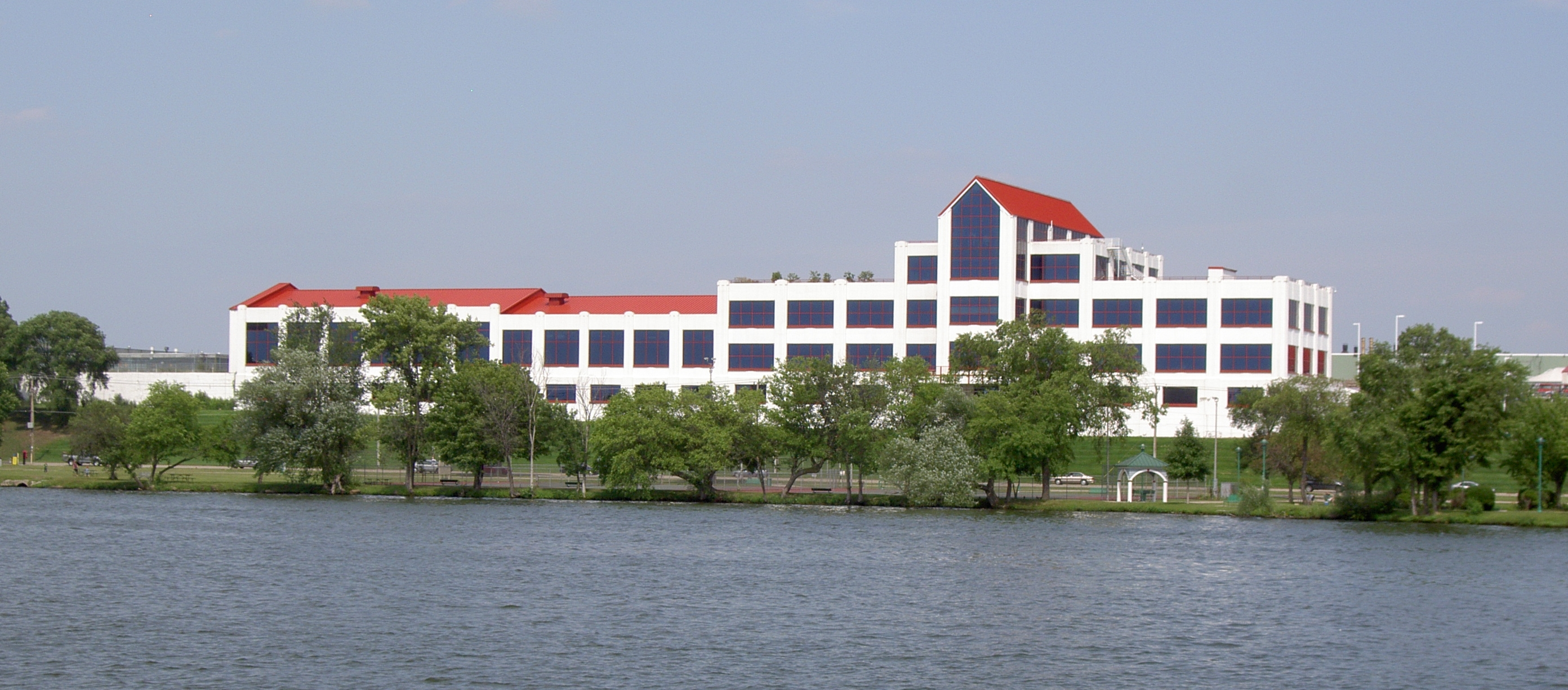 Taken by Adam Lautenbach on July 8, 2006 in Beloit.